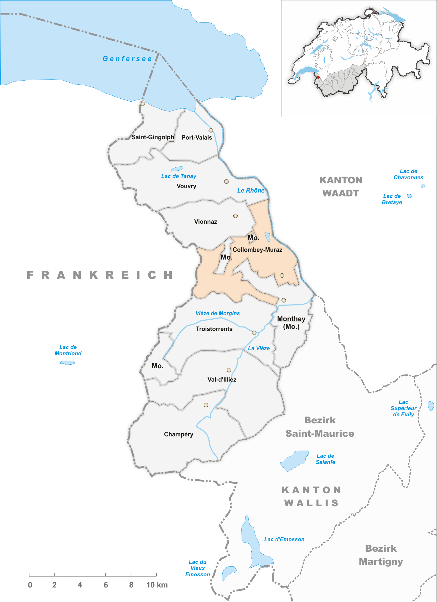 Municipality Collombey-Muraz